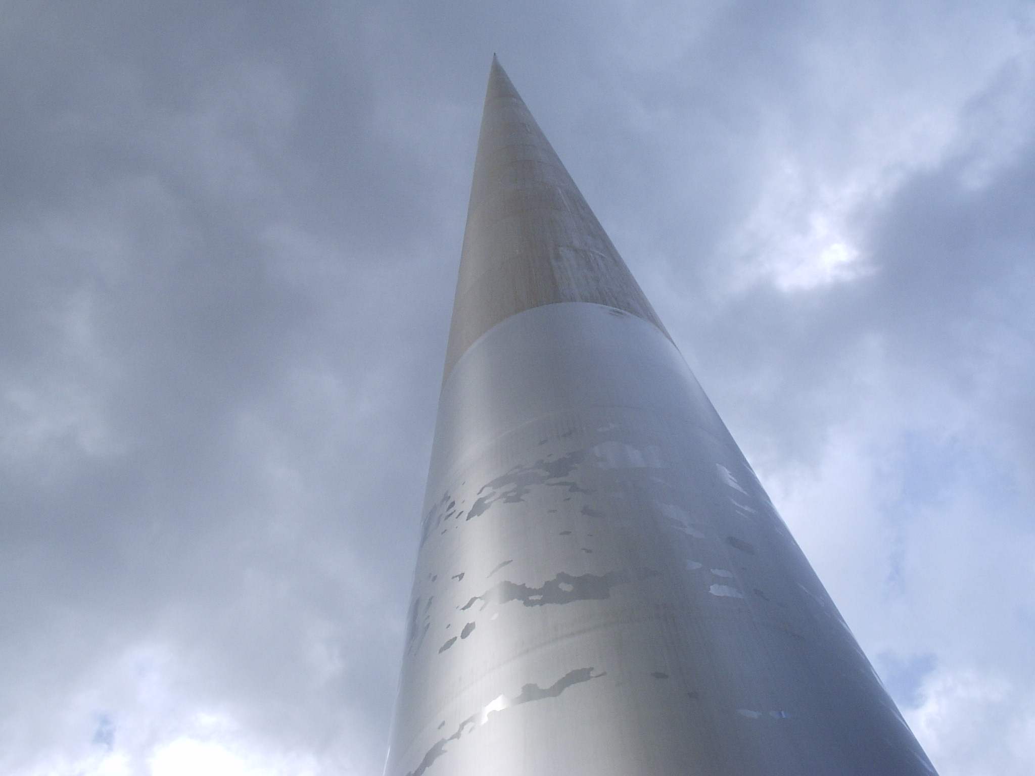 Description : The Spire of Dublin Author : Sebb Date : 09/2006